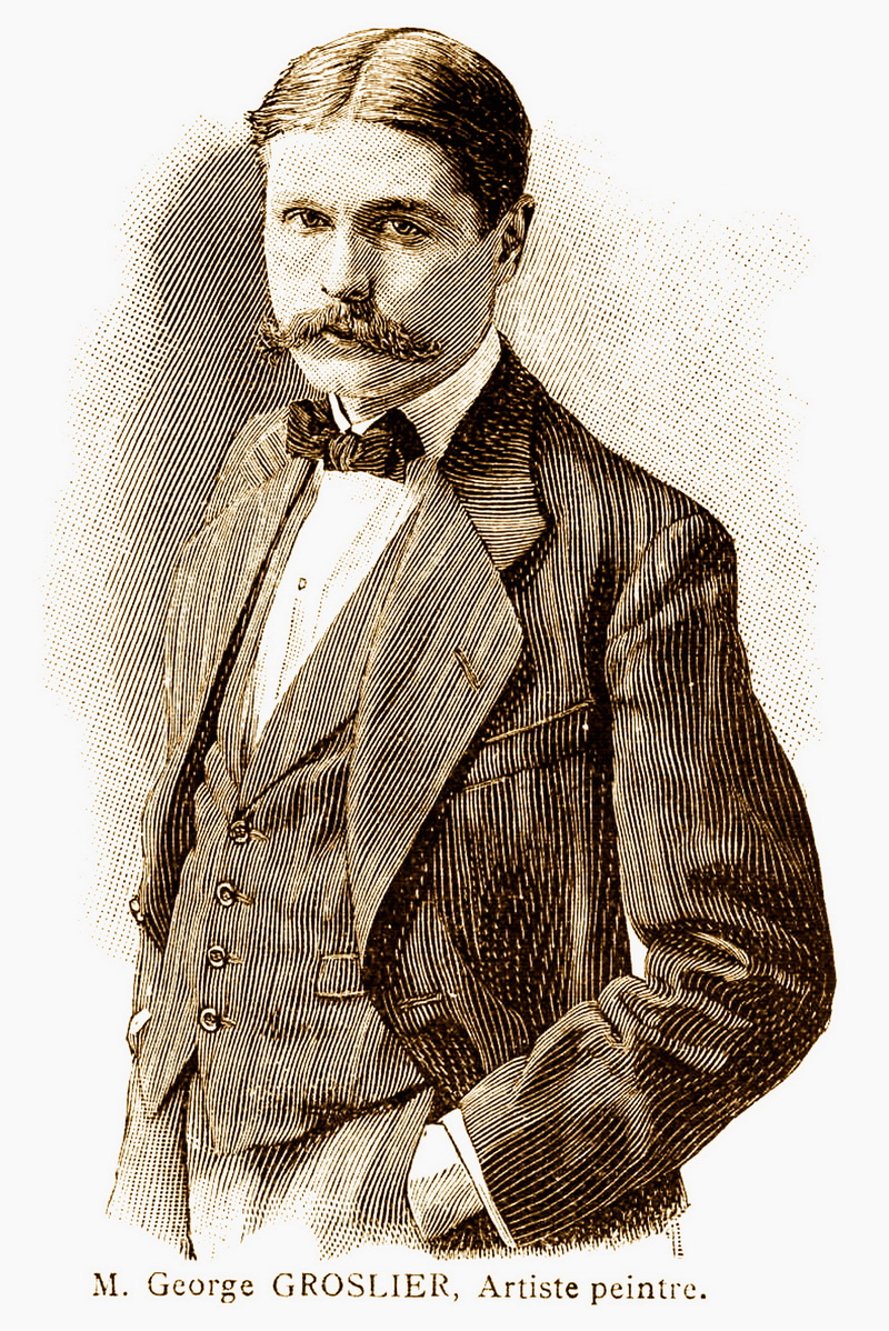 Portrait of George Groslier, from an advertisement for the wine Vin Mariani that appeared in the publication Femina (a French women's magazine published from 1901 to 1954), shortly after the publication of his book on Cambodian dance. not part of figures contemporaines tirées de l'album mariani